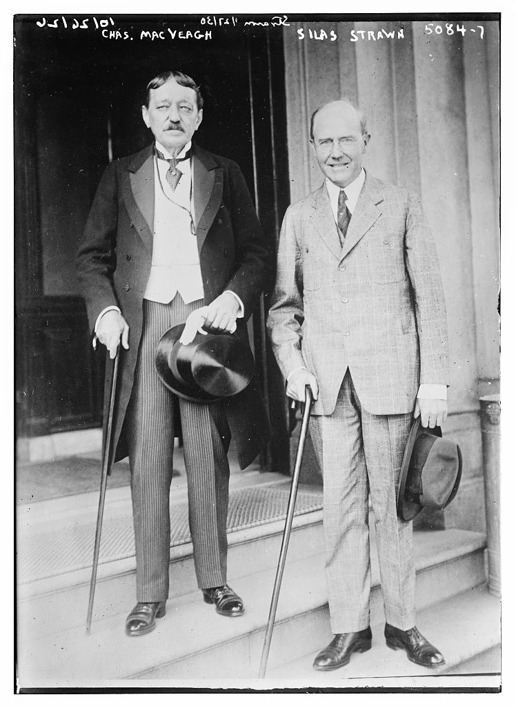 Silas Hardy Strawn (1866-1946) and Charles MacVeagh (1860-1931) in 1925